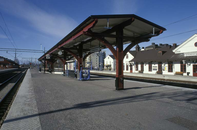 Katrineholm's rail way station